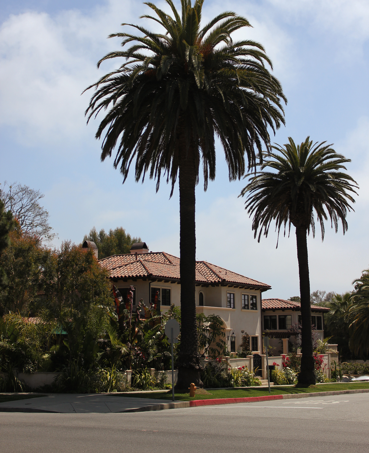 Typical home in the North of Montana neighborhood in Santa Monica, California - Zip code 90402, among the most expensive in California and in the U.S.